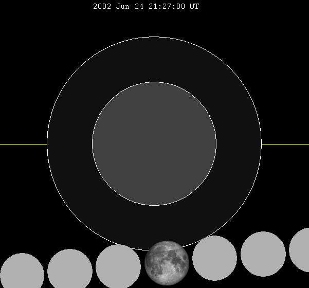 June 2002 lunar eclipse chart of moon's penumbral lunar eclipse path through the earth's shadow. The inner circle represents the earth's umbra and the outer circle is the penumbra. thumb